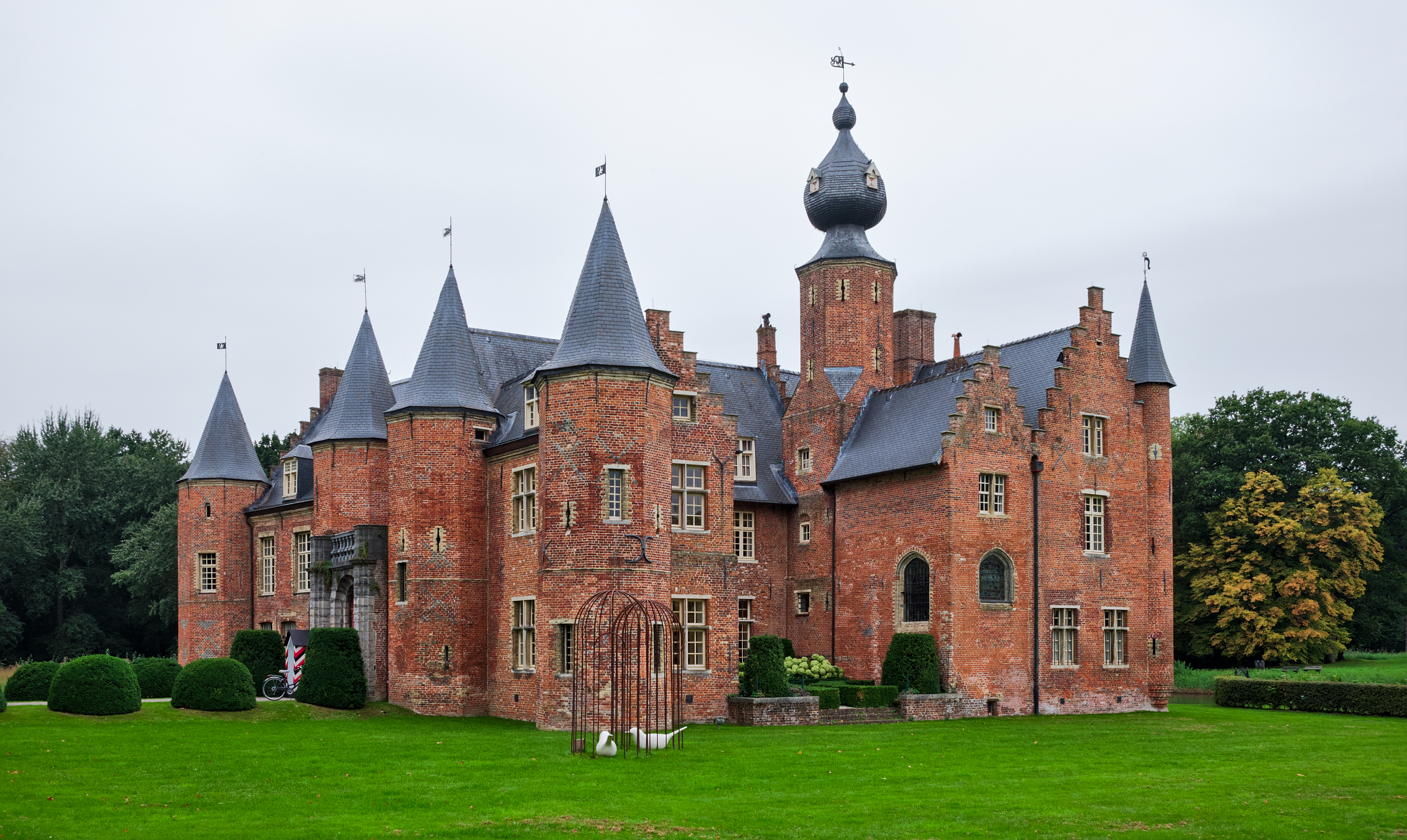 Castle of Rumbeke (SE side) This photo of immovable heritage has been taken in the Flemish Region